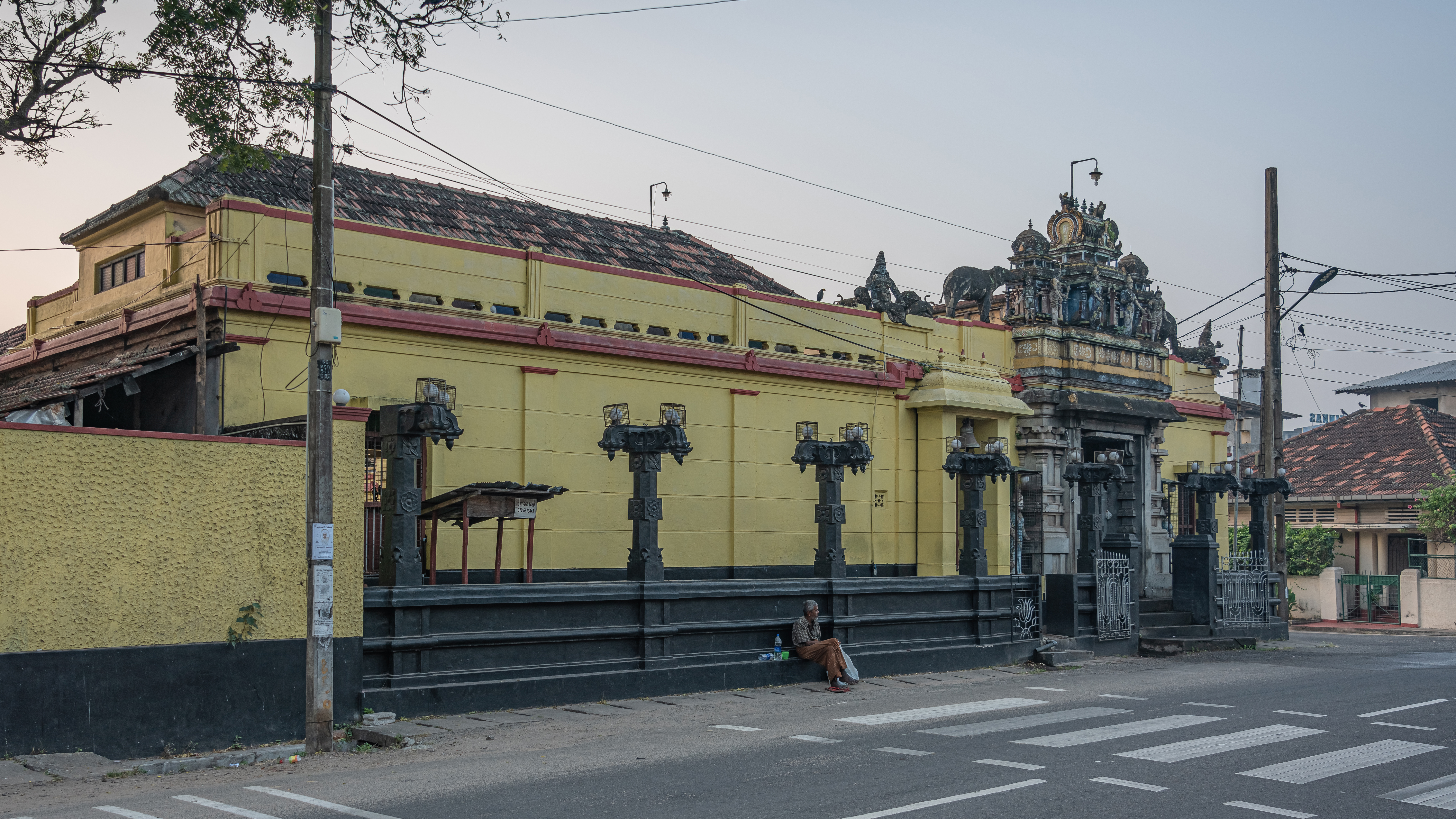 Muththumari Amman Temple (Hindu) in Negombo, Sri Lanka